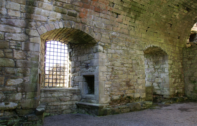 Craignethan Castle, Scotland - great hall